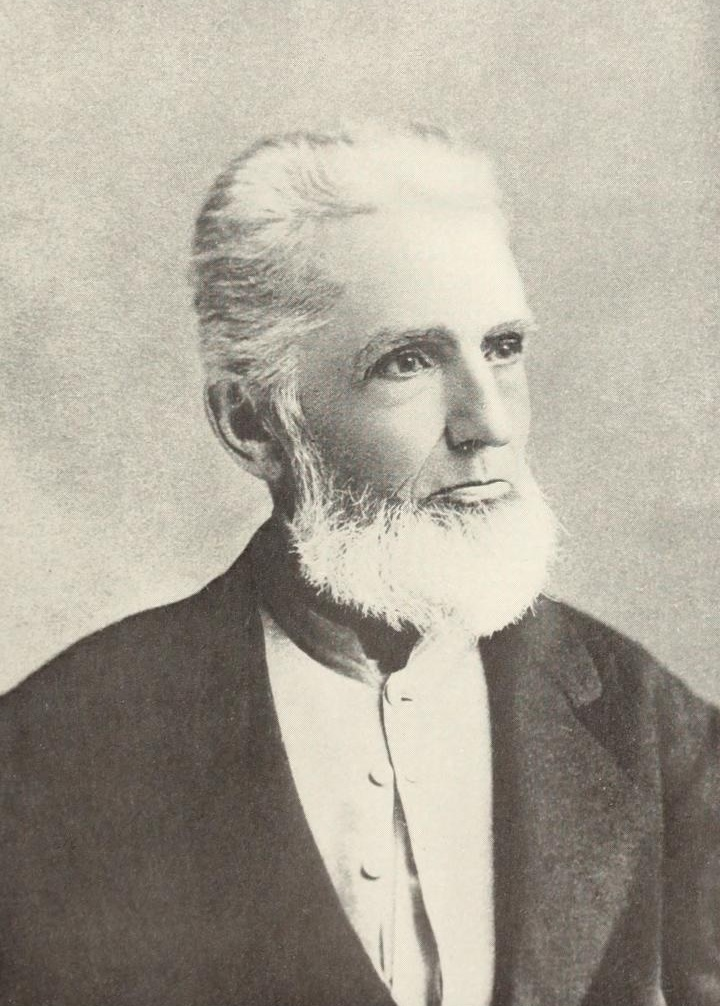 James T. Pratt (Connecticut Congressman)